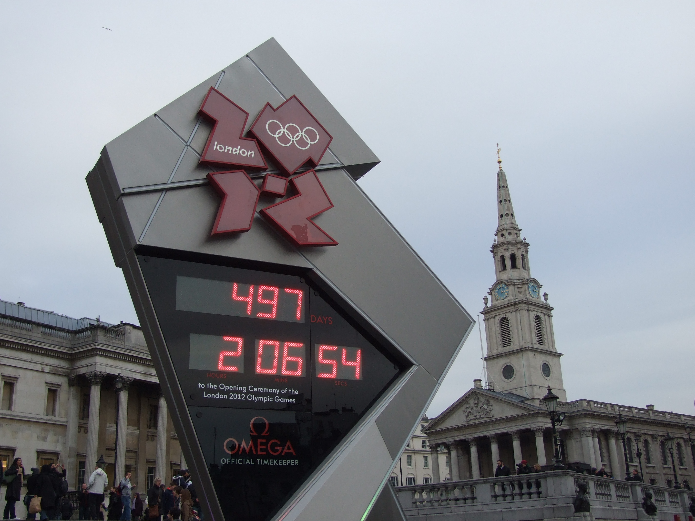 It's working properly now!